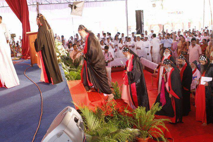 Procession of Mar Thoma Bishops